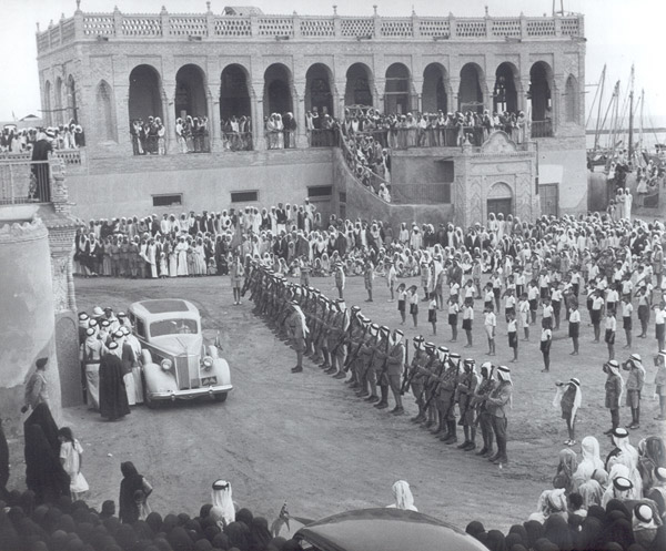 Celebration at Alseif palace for H.H. Sheik Ahmad Al-jaber Al-Sabah